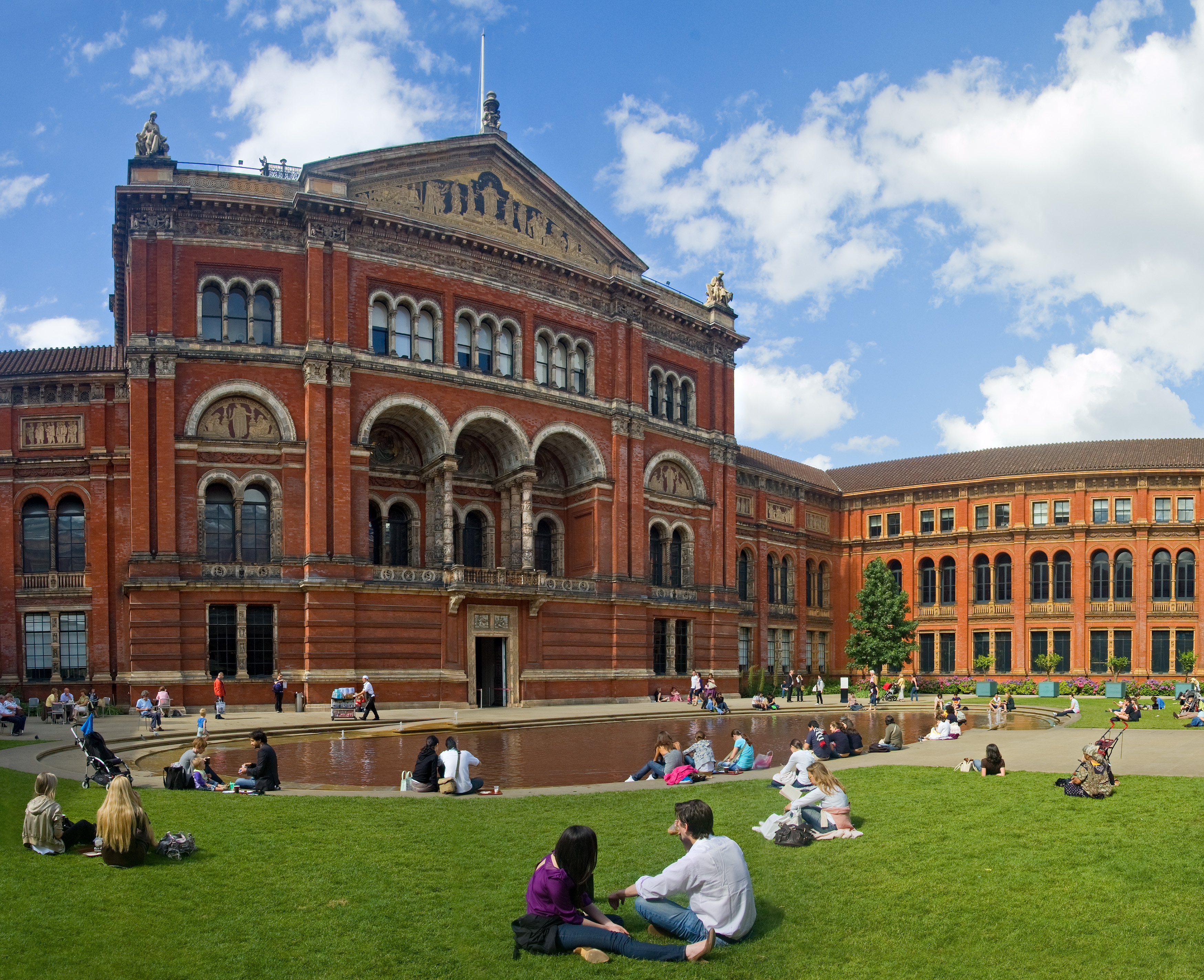 The central garden of the Victoria and Albert Museum in London, United Kingdom.